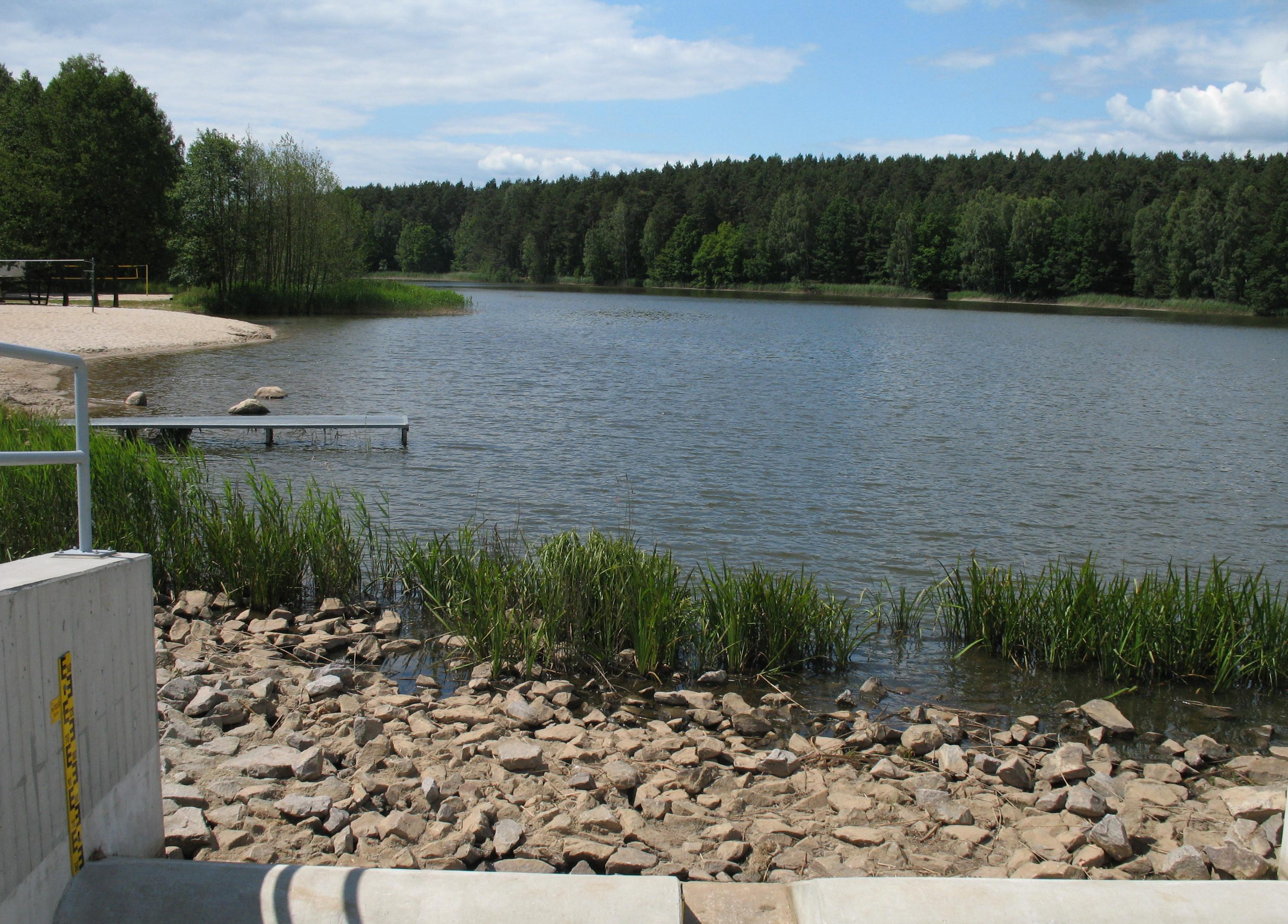 Water reservoir in Trossin-Dahlenberg in Saxony, Germany